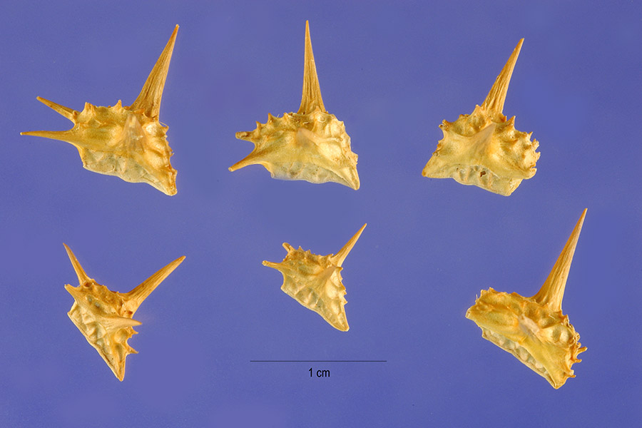 Tribulus terrestris L. - puncturevine thorns